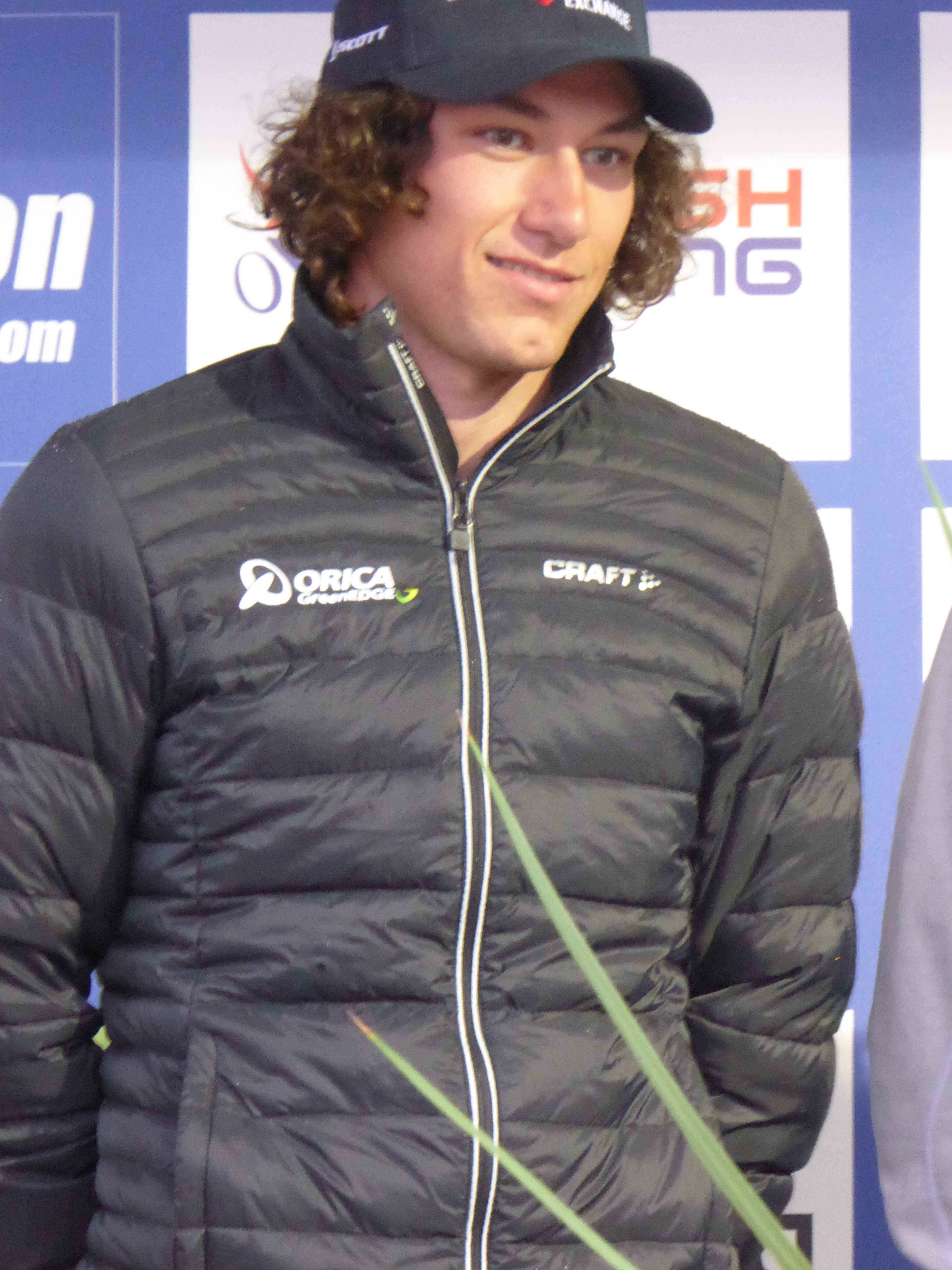 Robert Power (Orica-BikeExchange), pictured at the 2016 Tour of Britain team presentation in Glasgow on 3 September 2016.